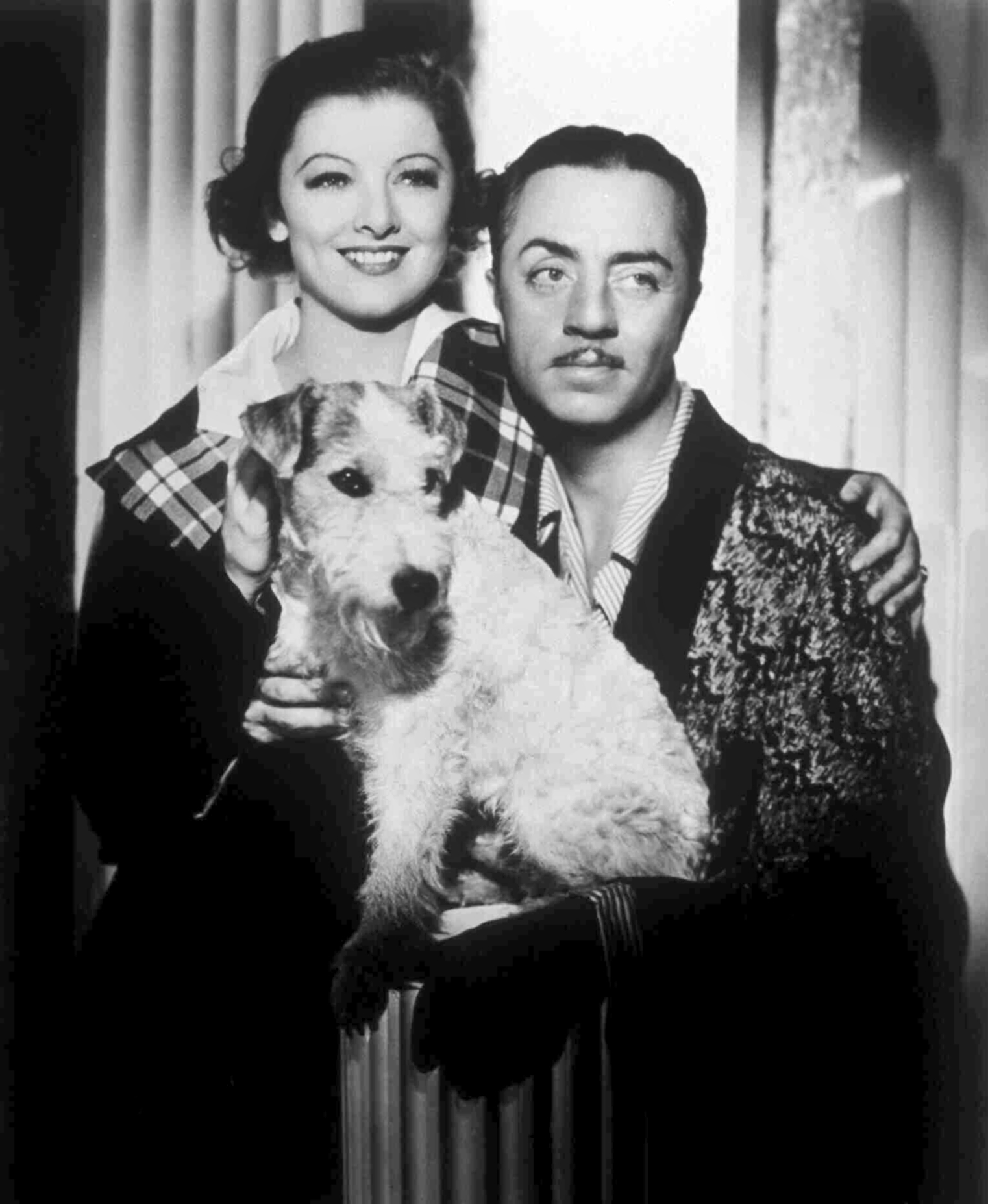 Promotional photograph for the film The Thin Man starring Myrna Loy and William Powell, with Skippy as Asta